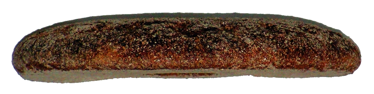 Reikäleipä (finnish traditional bread with the hole in center): side view